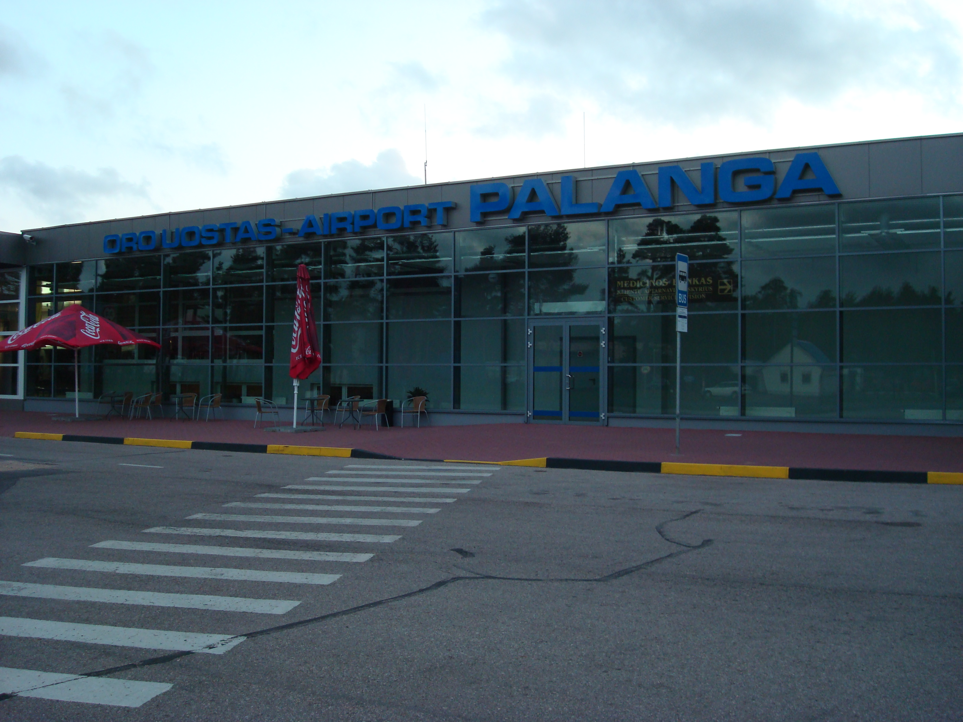 Palanga Airport